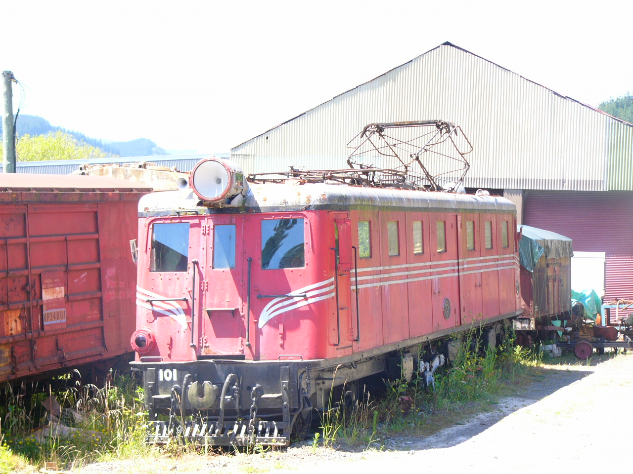 electric loco ED101, Silverstream Railway, New Zealand